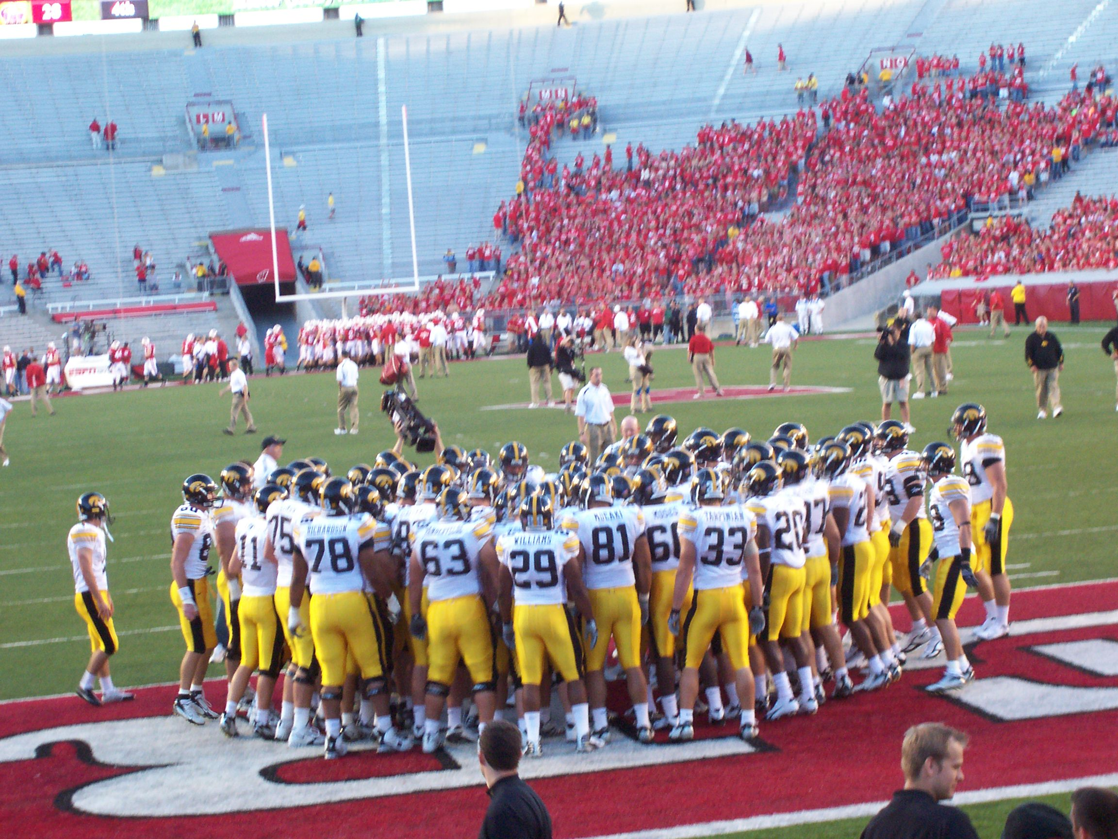 Iowa Hawkeyes huddle before gametime at Camp Randall Stadium against the Wisconsin BadgersWisconsin Badgers vs. Iowa Hawkeyes 09.22.07